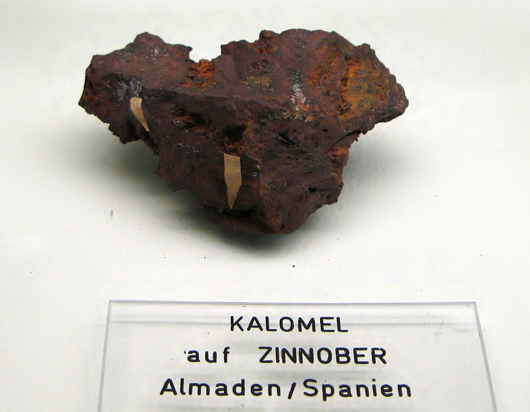 Calomel on Cinnabarite - Fundort: Almaden, Spain - Exposed in the Mineralogical Museum, Bonn, Germany